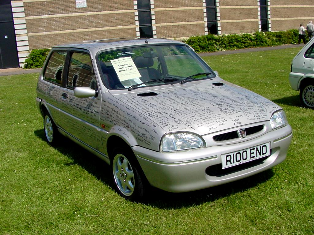 Front of the last Rover 100 ever produced - a 1997 grey Rover 114 GTa. Metro 30th Anniversary at Heritage Motor Centre, Gaydon, UK